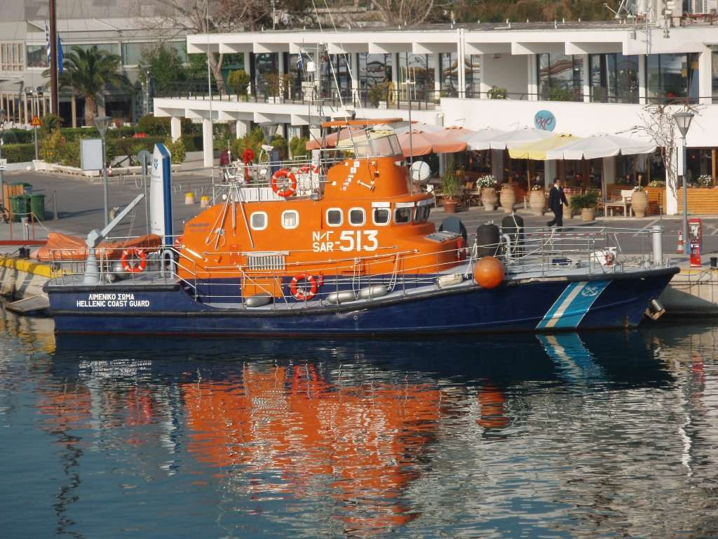 Lambro Halmatic 60 class lifeboat SAR-513, SX6579, of the Hellenic Coast Guard at Marina Zeas CG station.